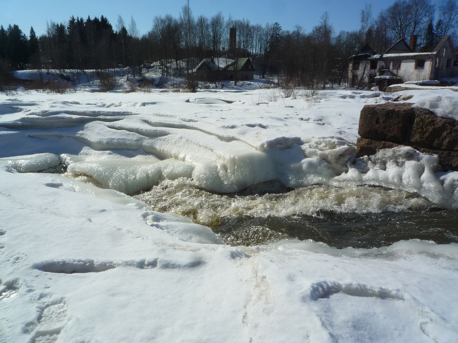 Partly frozen river in Vantaankoski, Vantaa, Finland.